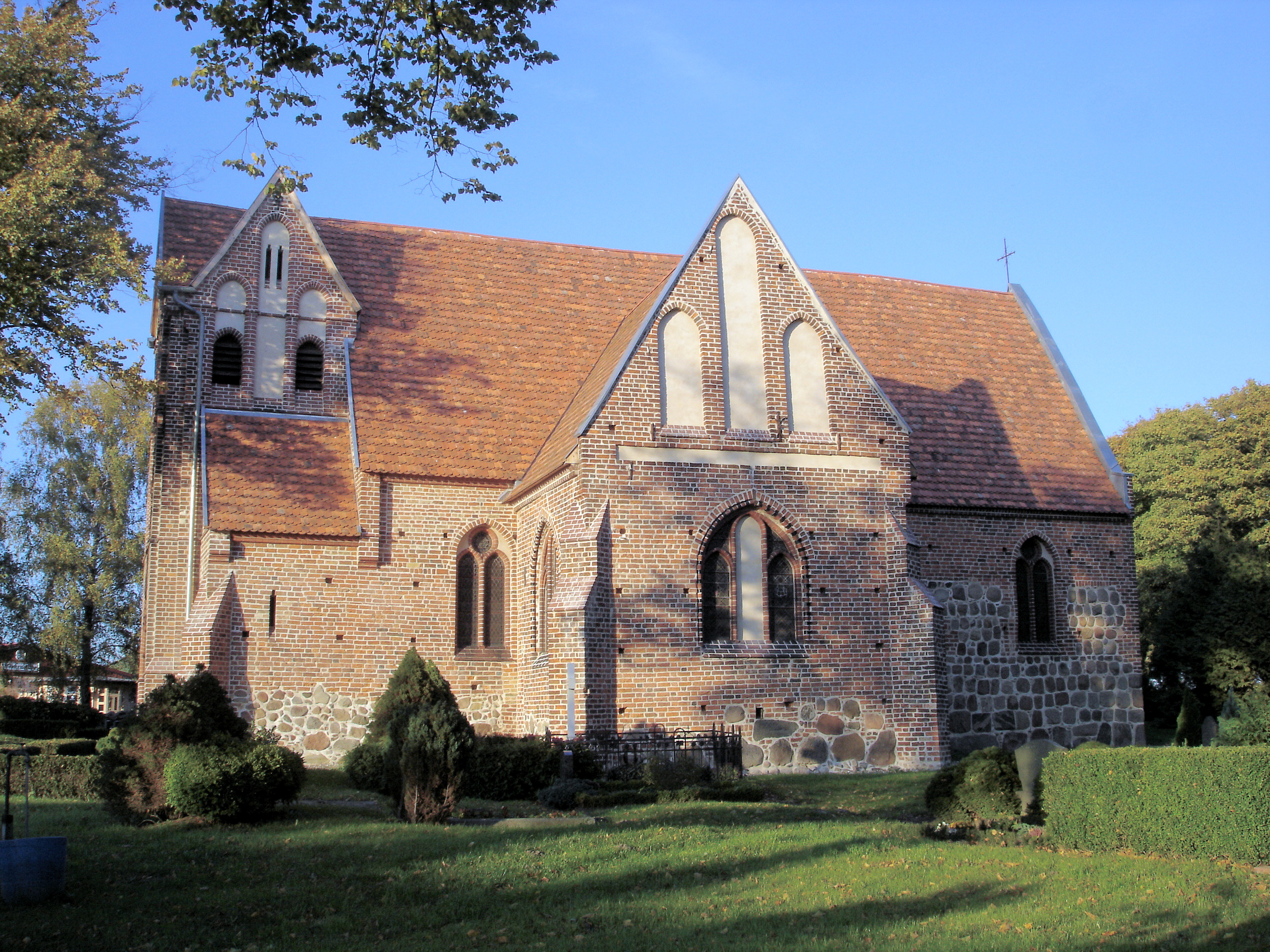 Church in Russow, Mecklenburg, Germany